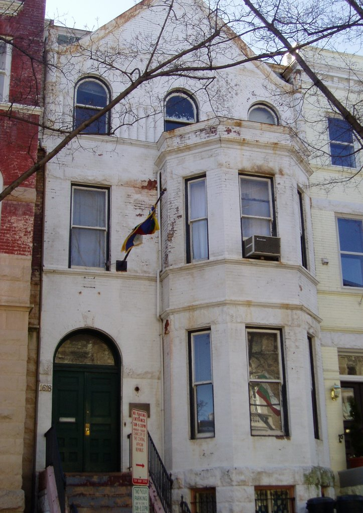 Note the dilapidation on the building. Their home country's poor economic situation explains the size of their embassy and the condition it's in.